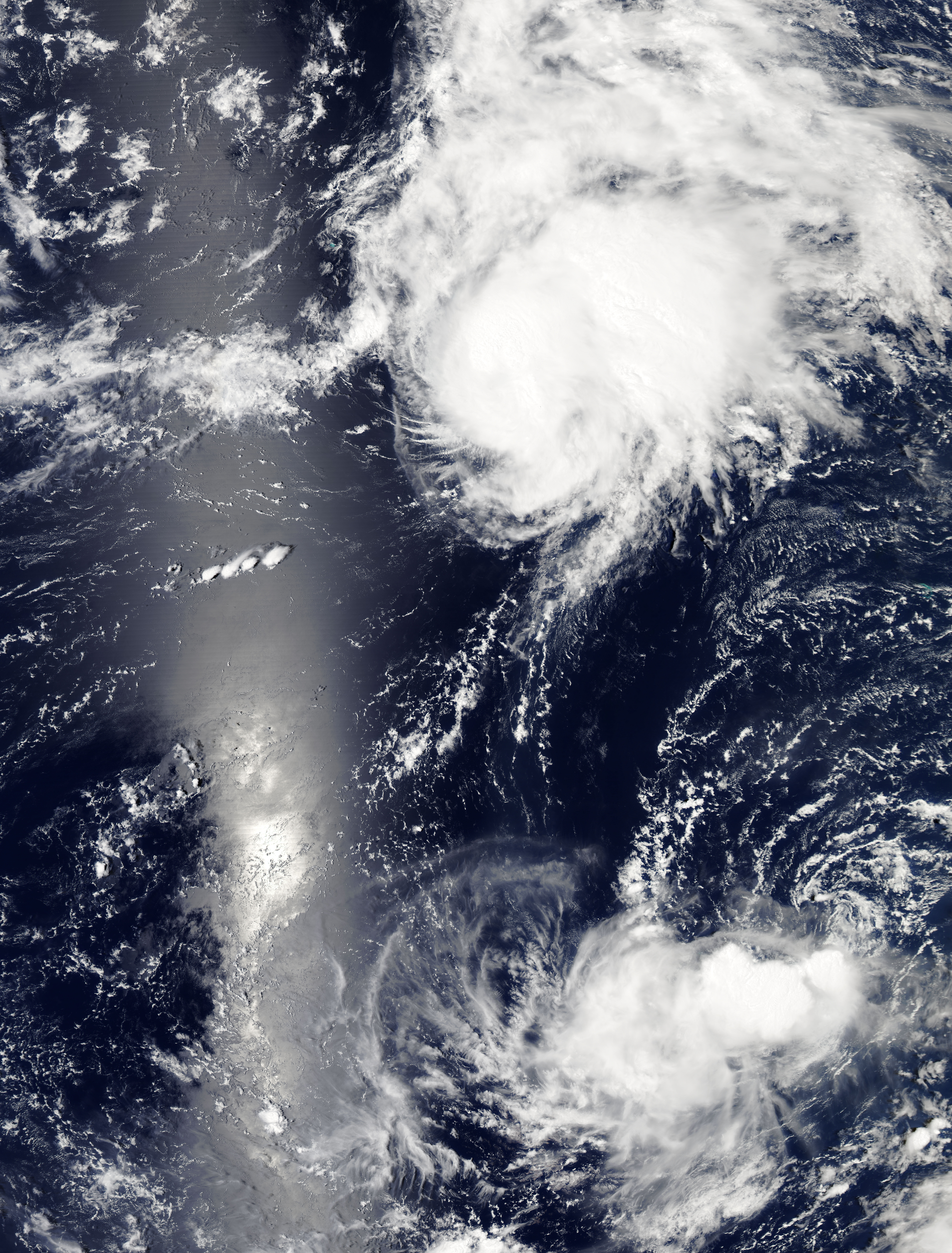 Tropical Depression Kilo (03C) and Hurricane Loke (04C) in the central Pacific Ocean